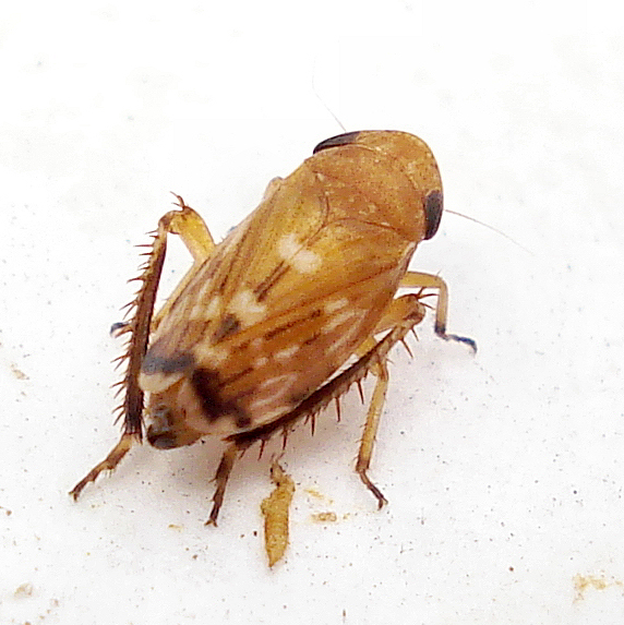 New for me :) Found on mixed flora. Size: 3mm Backies wildflower meadow, Boultham Moor, Lincoln U.K.